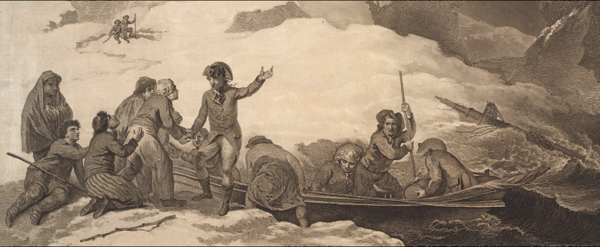 Inscribed in the plate l.l.: Painted by Robt. Smirke; l.c.: Aquatinta by F. Jukes; l.r.: Engraved by Robt Pollard; b.: The Departure / Of S.W. Prentice, Ensign of the 84th Regt & five others from their Shipwrecked Companions in the depth of Winter 1781. Mr Prentice was sent with public dispatches from Govr Haldiman at Quebec, to Sir Heny Clinton at New York, who with 18 Seamen & Passengers, were cast away on a desolate / uninhabited part of the Island of Cape Breton Decr 5; 1780. Five perished and several lost their Fingers & Toes by the severity of the cold. The survivors continued in this place several weeks when Mr Prentice & such as were able, embarked in a small Shatterd Boat to seek some inhabited country. The stopped / the leakes of their Boat by pouring Water on its Bottom till the holes were closed up with Ice. During a voyage of two Months in which they suffered incredible hardships; & at length worn out with fatigue, benumbed, diseased & famished. They were discovered by some of the Native Indians. These friendly / Savages afterwards went to assist those who had been left at the Wreck of whom 5 only were found alive & they had subsisted many Days on the Bodies of their dead companions. / See Ensign Prentice's Narrative. / LONDON, Pubd March 8 1784 by R. POLLARD No. 15 Braynes Row, Spa Fields, & R. WILKINSON No. 58 Cornhill.